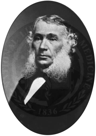 photo of Samuel Preston Moore (1813-1889)